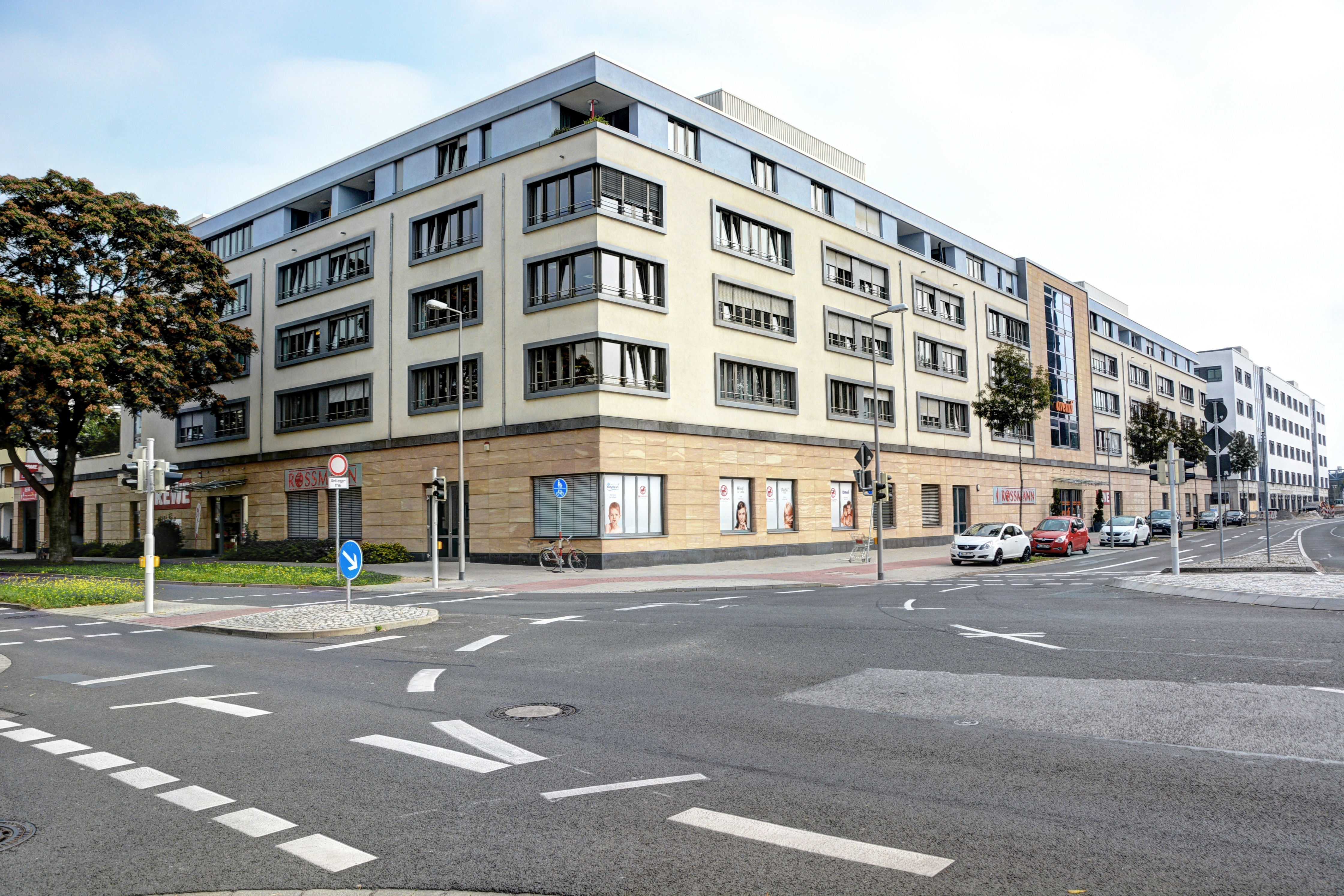 Lanzcarré, Mannheim-Lindenhof (Germany), Lindenhofstraße / Landteilstraße